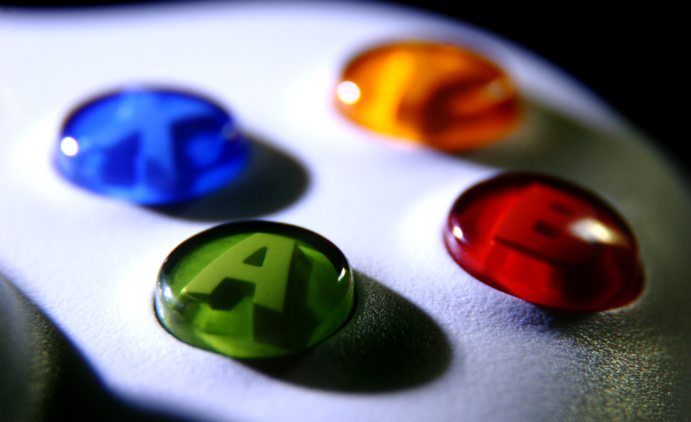 controller xbox360